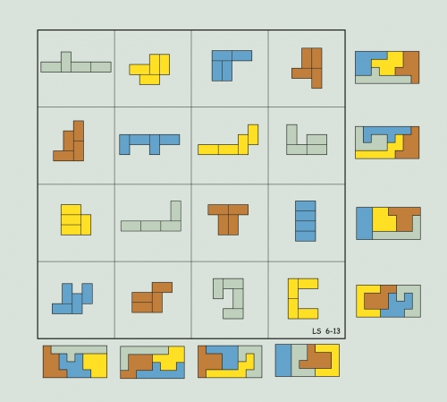 A geomagic square whose 16 pieces form a 'self-tiling tile set'. The latter is any set of n distinct shapes, each of which can be tiled by smaller replicas of the complete set.